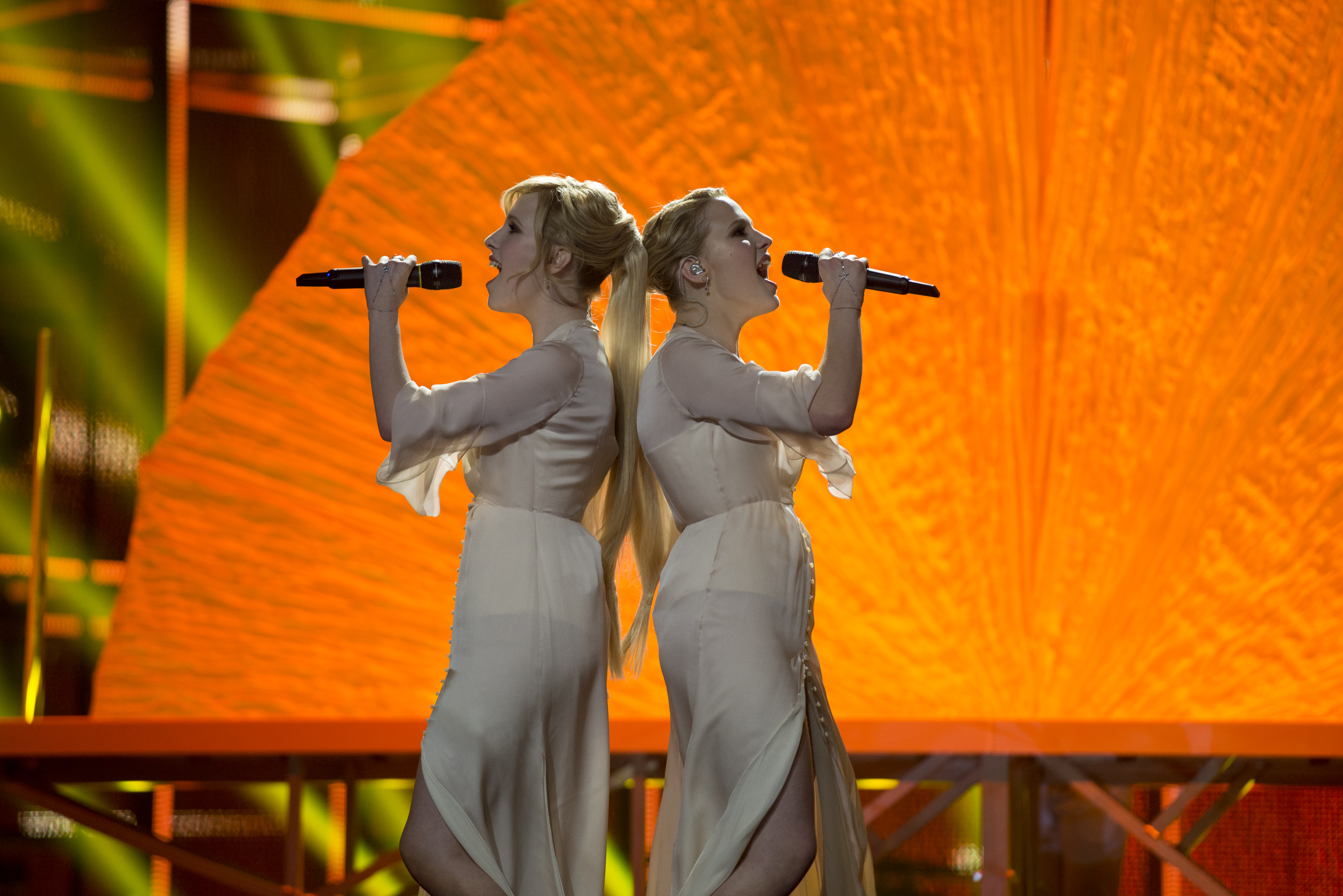 The Tolmachevy Twins representing Russia with the song "Shine" during the first dress rehearsal of the first semi final of the Eurovision Song Contest 2014 Copenhagen. (Help translate this text)